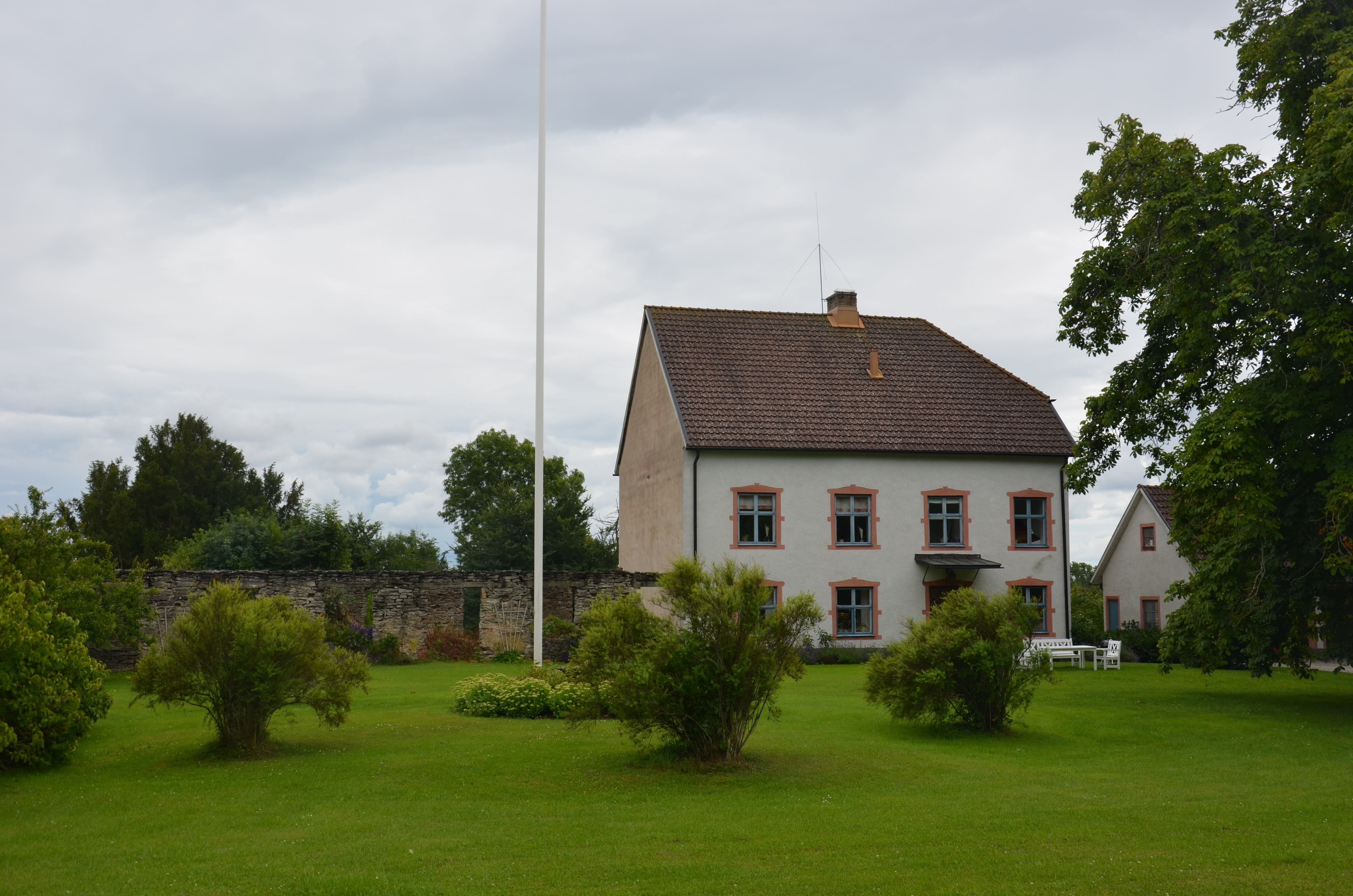 Rosendal manor house.Follingbo.Gotland